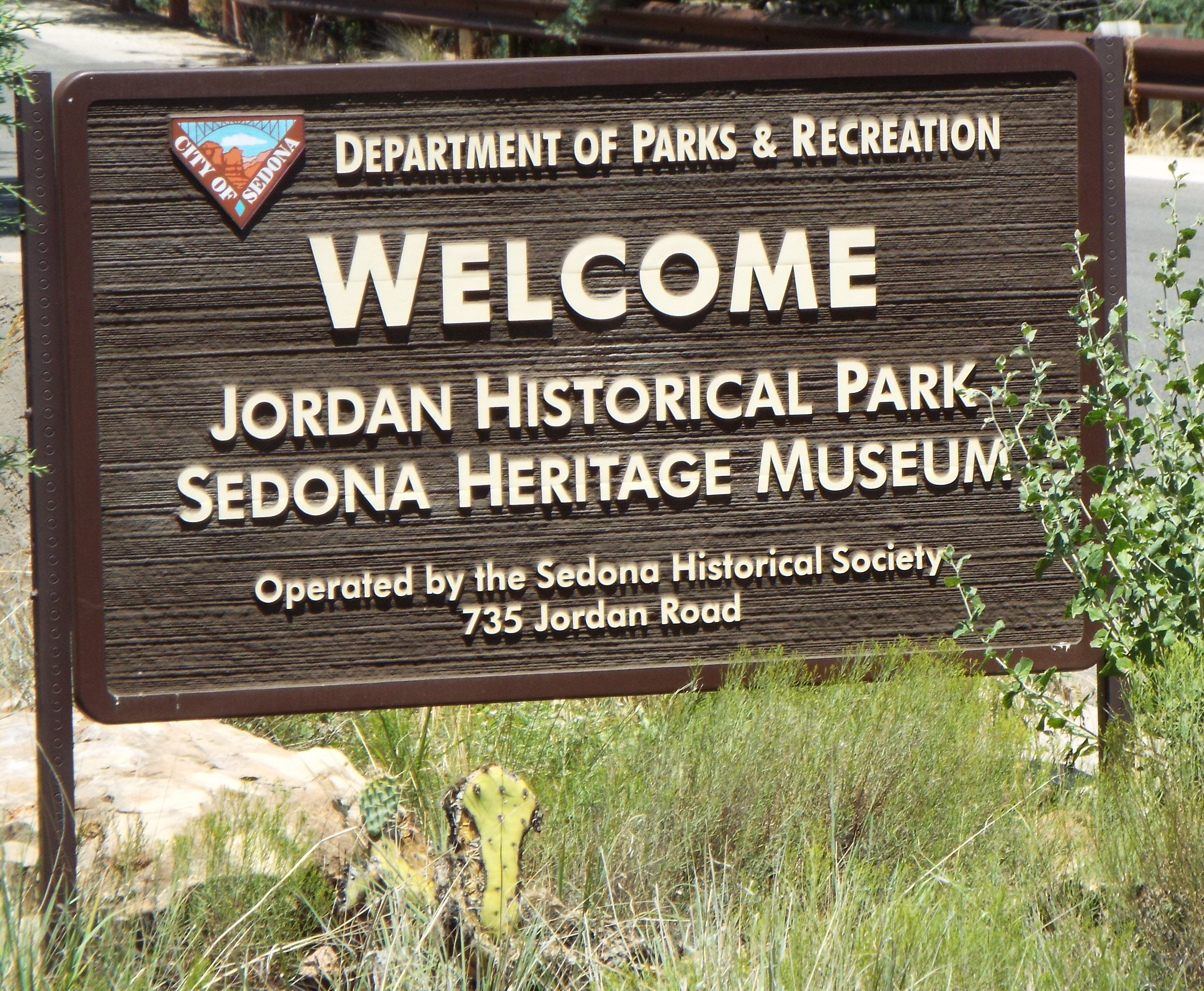 Welcome to the Jordan Historical Park sign in Sedona, Az